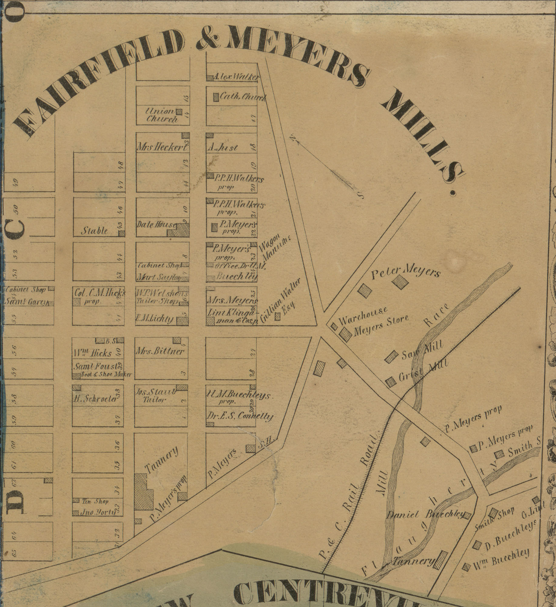 Inset map of Fairfield & Meyers Mills taken from 1860 Edward L. Walker map of Somerset County, Pennsylvania, available at the Library of Congress website